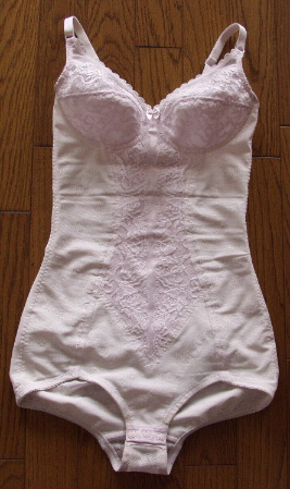 body suit